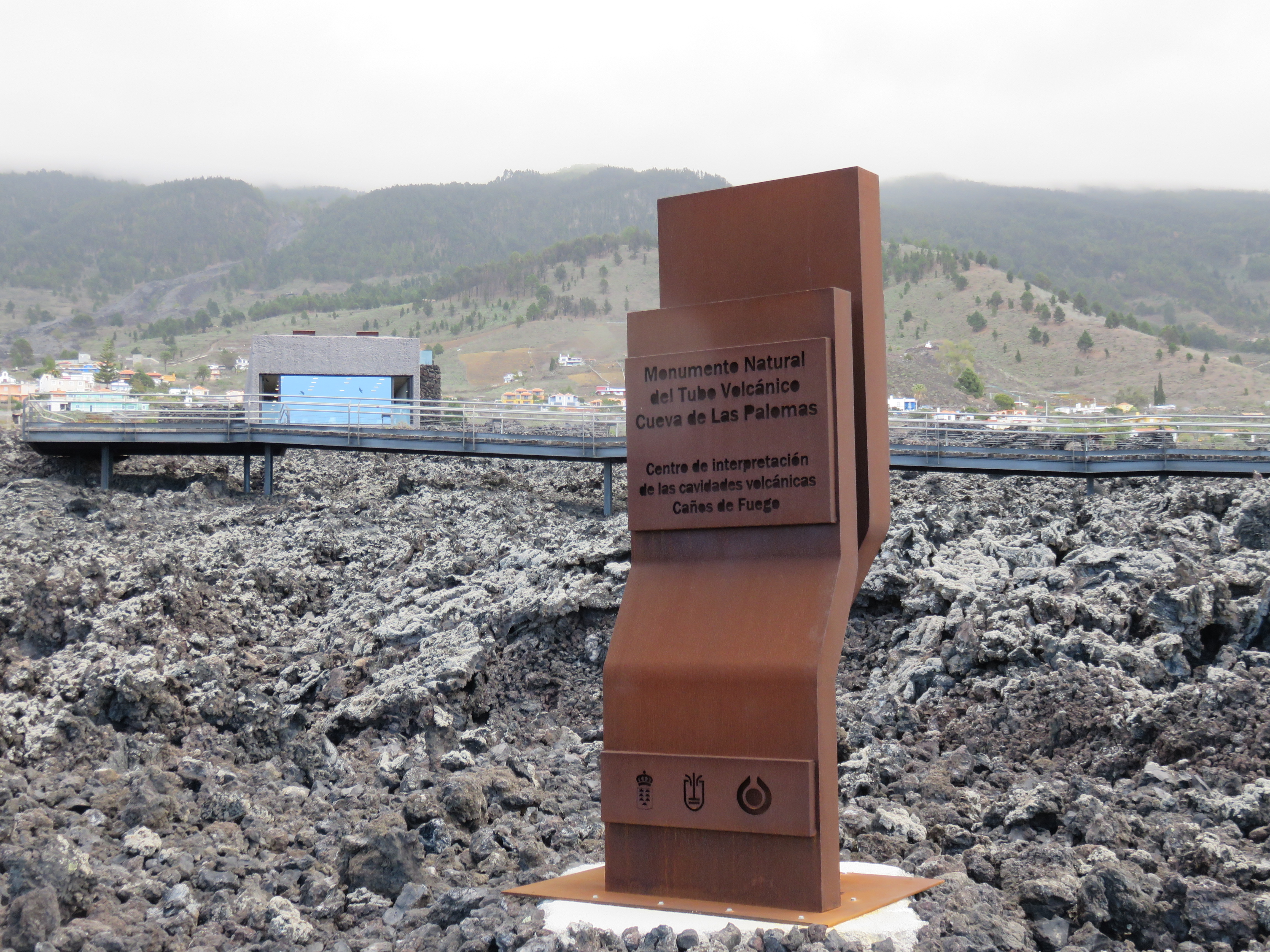 Visitor center in the Todoque lava field